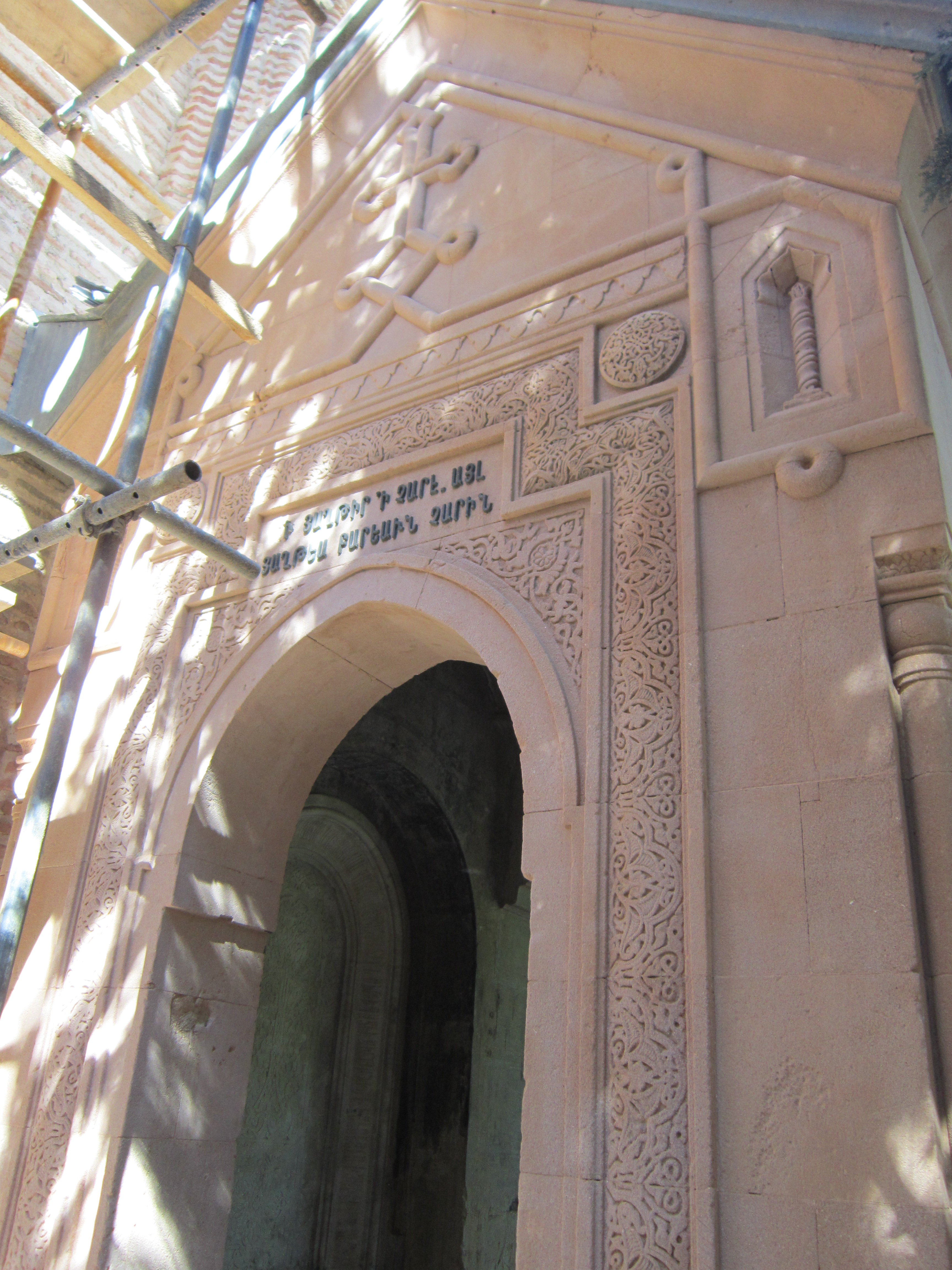 An Armenian inscription on the Norashen Church, Tbilisi